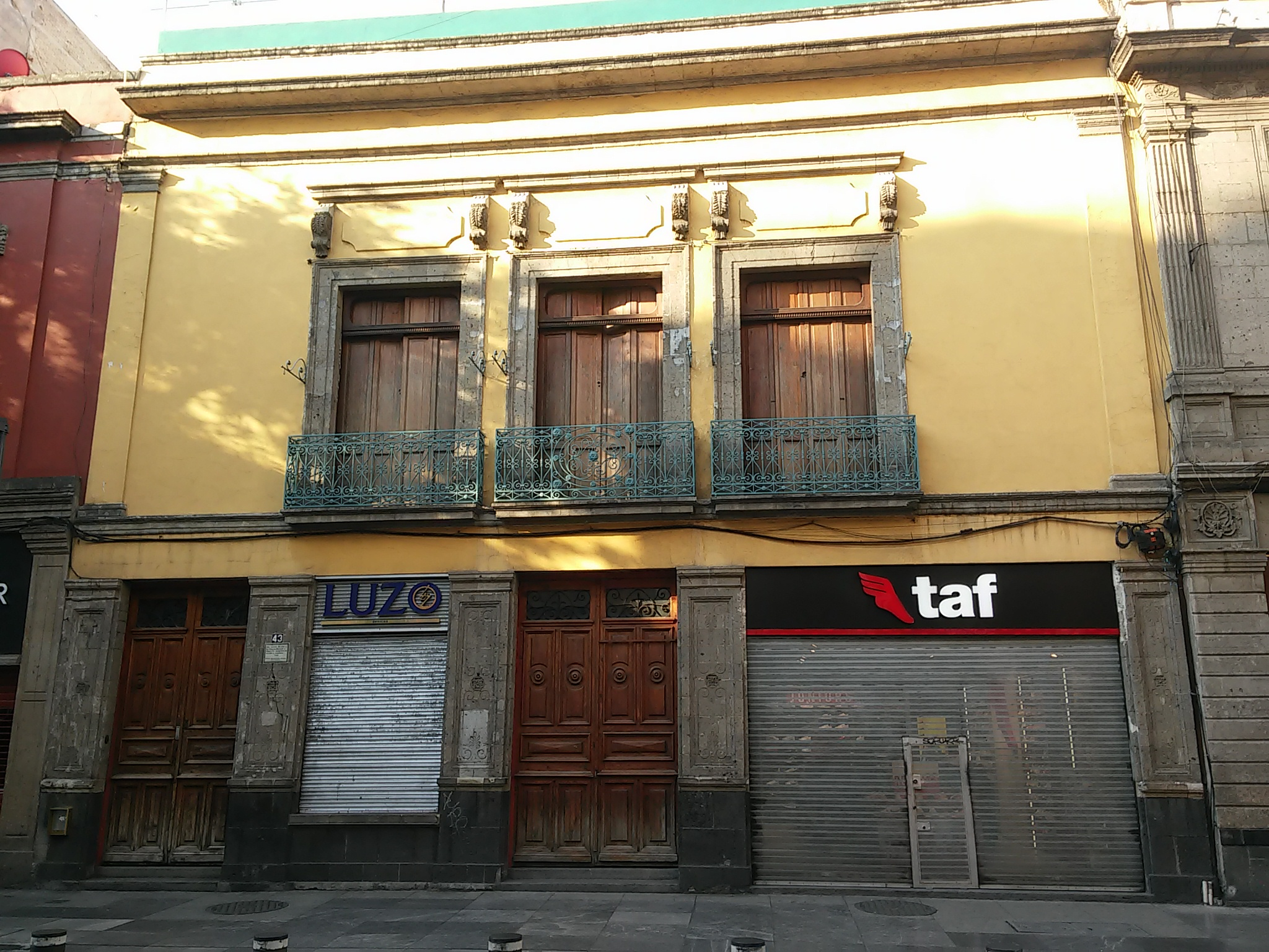 Casa donde vivieron los hermanos José Francisco y Francisco Fagoga en la calle 16 de septiembre 43, centro histórico de la ciudad de México